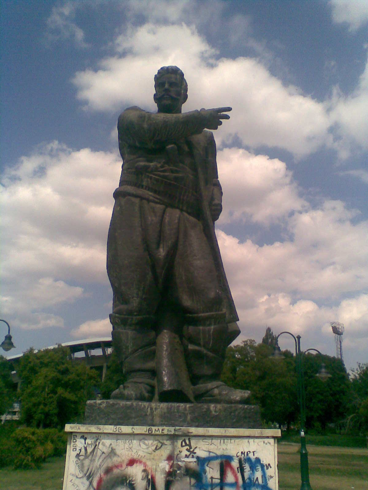 Statue of Goce Delčev in Skopje, Macedonia